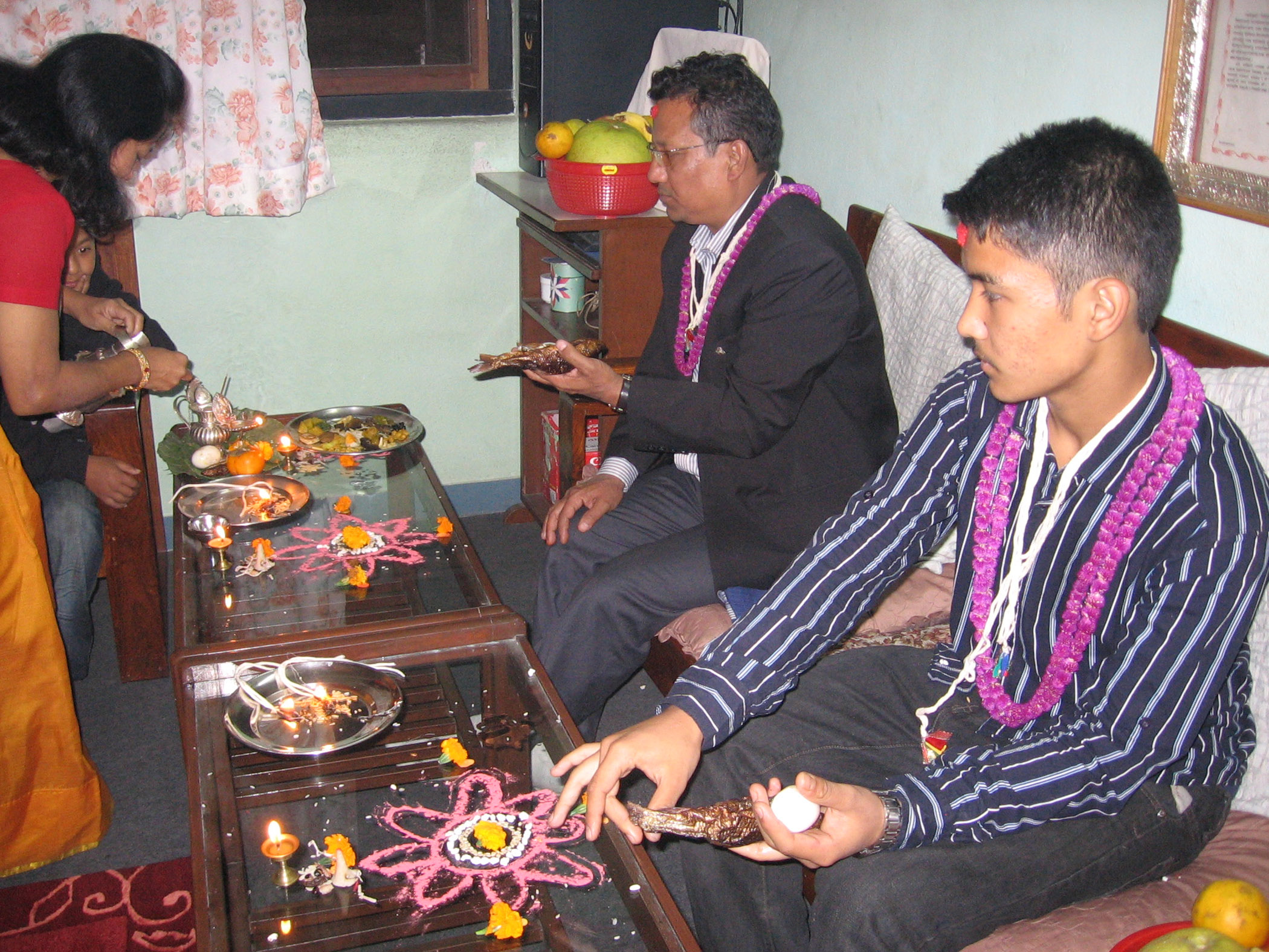 Nepalese Kija Puja ritual where sisters honor their brothers and pray for their long life.